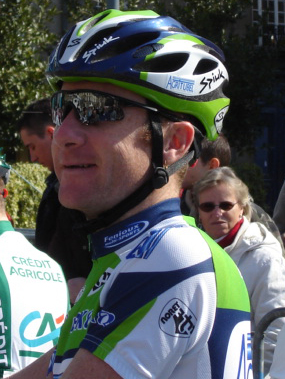 Nicolas Jalabert in GP Rennes 2007